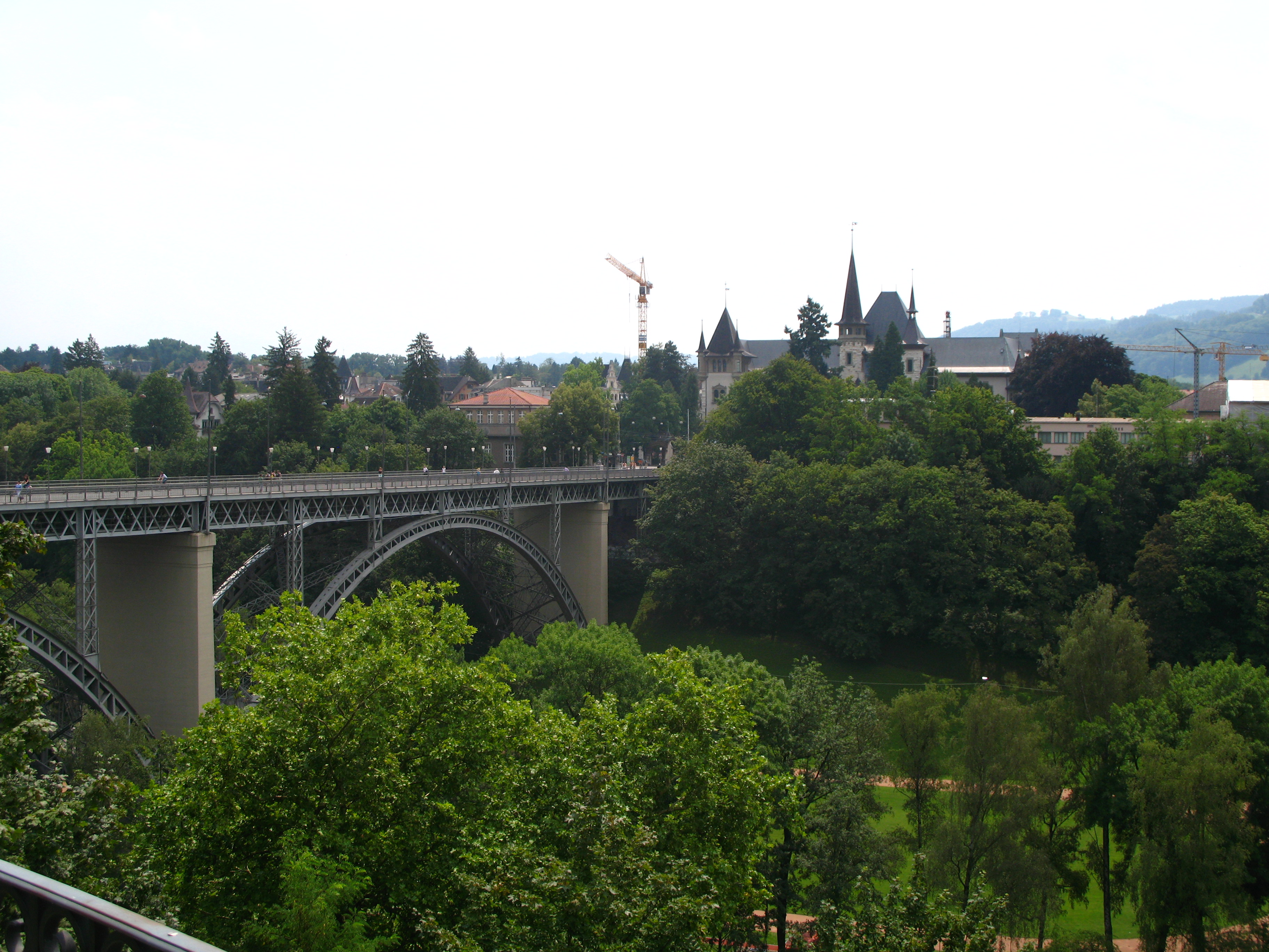 Church Span Bridge and the History Museum, Berne, Switzerland